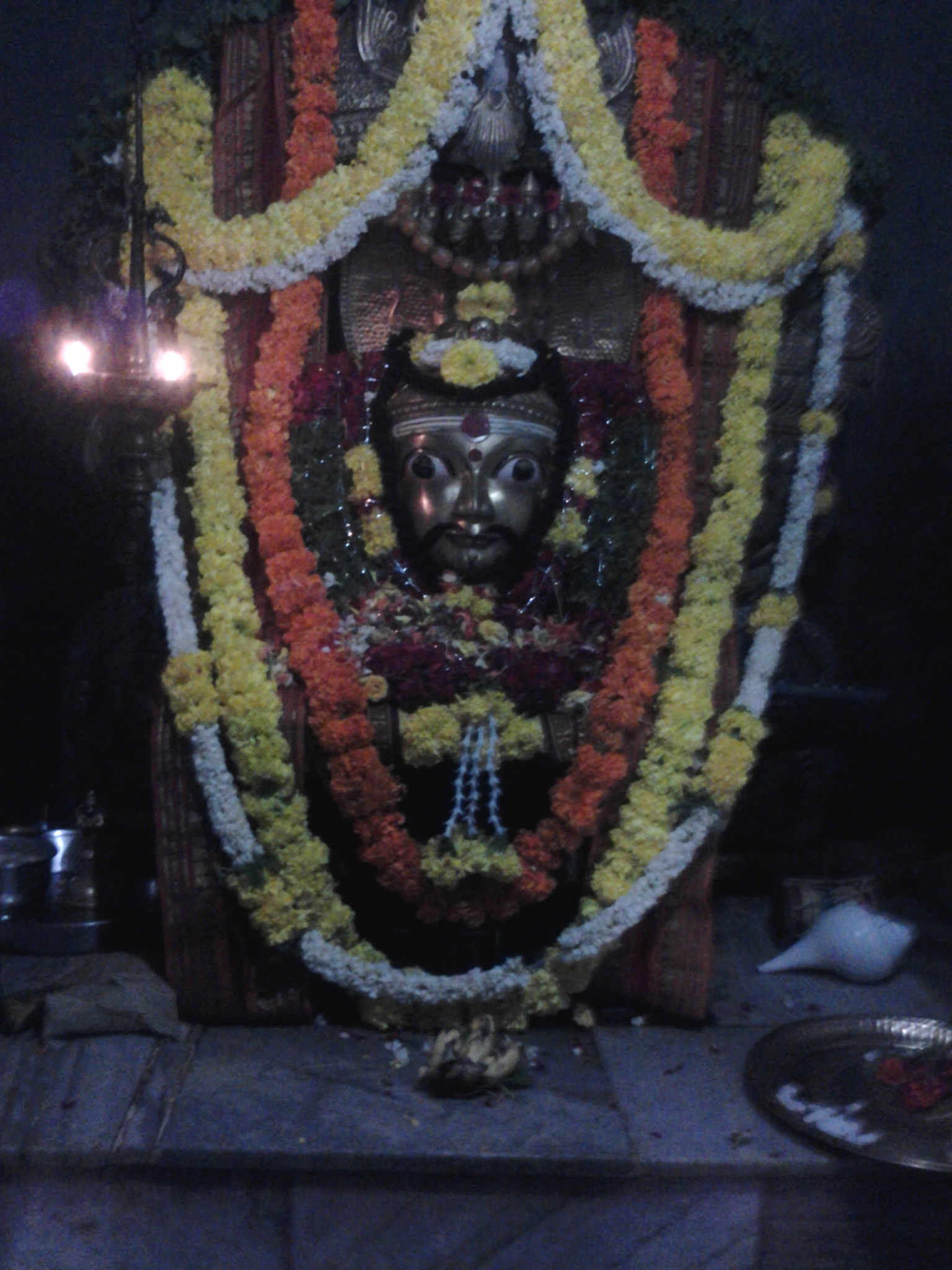 Shri Kashi Vishweshwara swamy,Papagni mutt,chiballapur,Karnataka